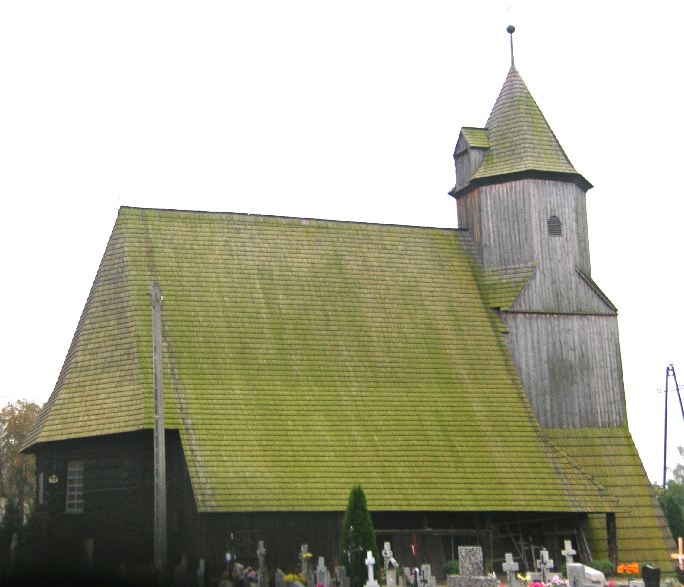 Holy Trinity church in Krzywiczyny, Poland